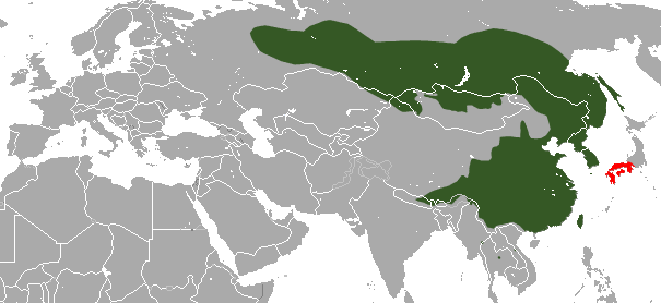 Siberian Weasel (Mustela sibirica) range (green - native, red - introduced)